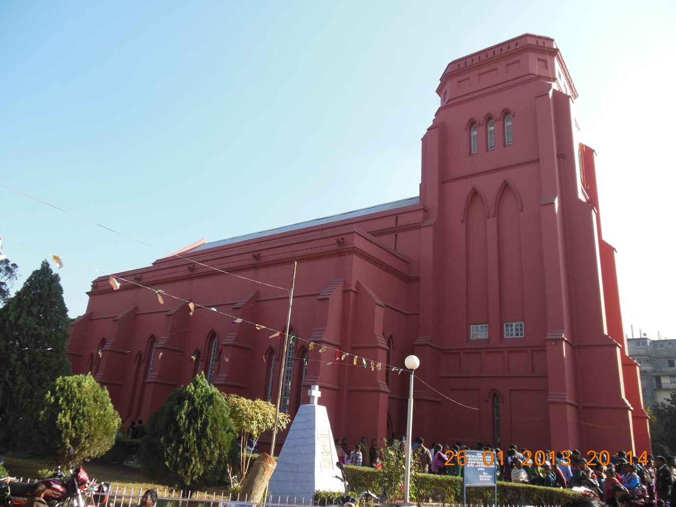 Main Building, G.E.L.Church, Ranchi